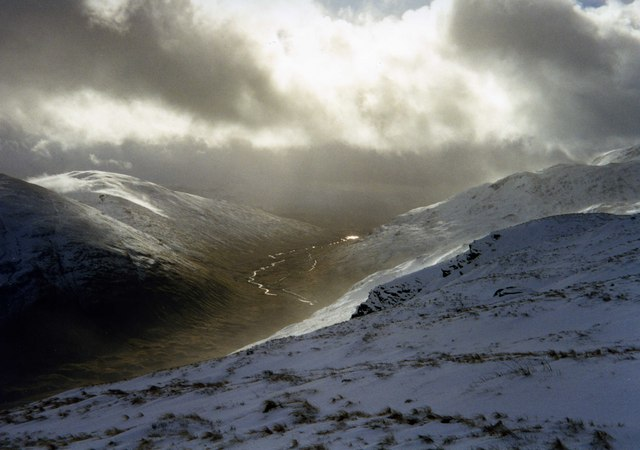 South-West Glen Lochay. Taken from Southern slopes of Beinn Heasgarnich. The river Lochay leading to the small Lochan Chailein.